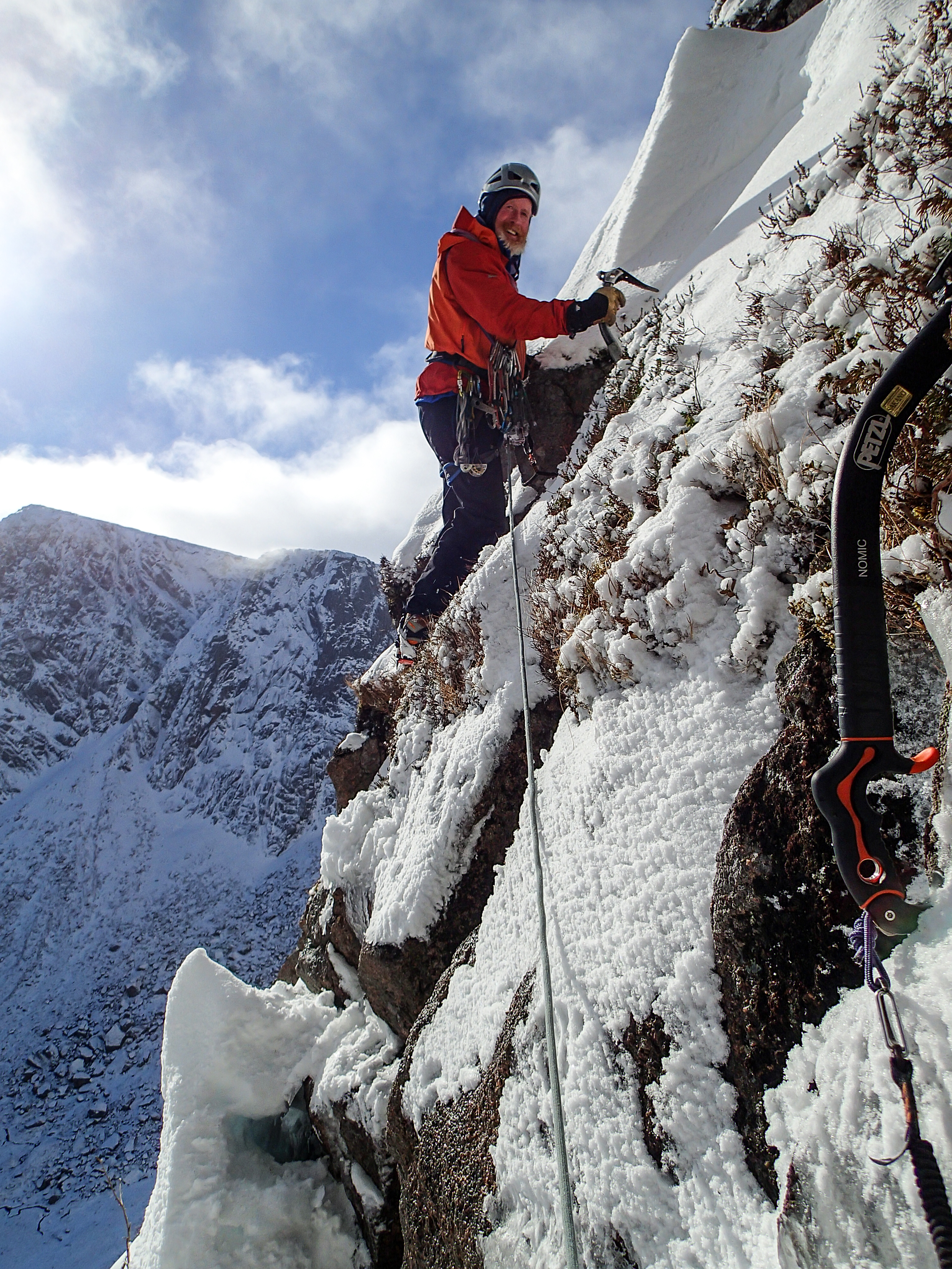 Andy Nisbet setting off on Pitch 1 of a winter route on Stag Rocks, Scotland